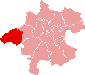 Location of Bezirk Braunau am Inn within the Land of Upper Austria